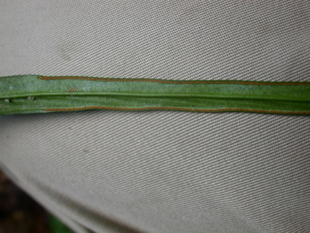 Name Vittaria flexuosa Fee（シシラン） Family Vittariaceae(Pteridophyta) Date;2006,11;Susami town, Wakayama prefecture, Japan Author;Keisotyo